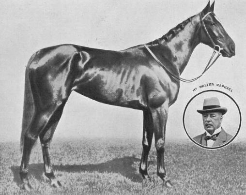 Bettina, winner of the 1921 1000 Guineas, and her owner Walter Raphael (insert).